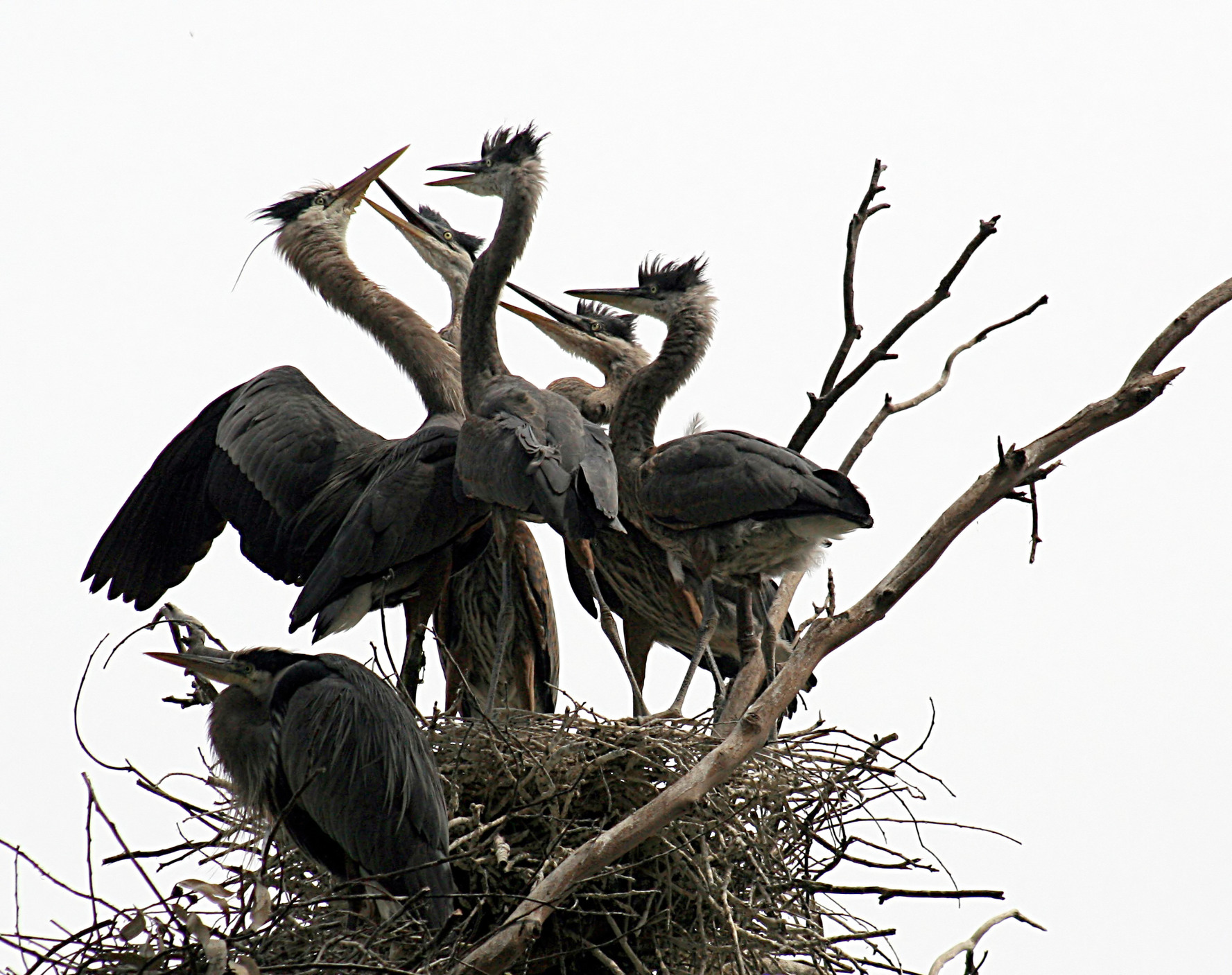 Feeding Great Blue Heron (Ardea herodias) chicks , San Francisco, California